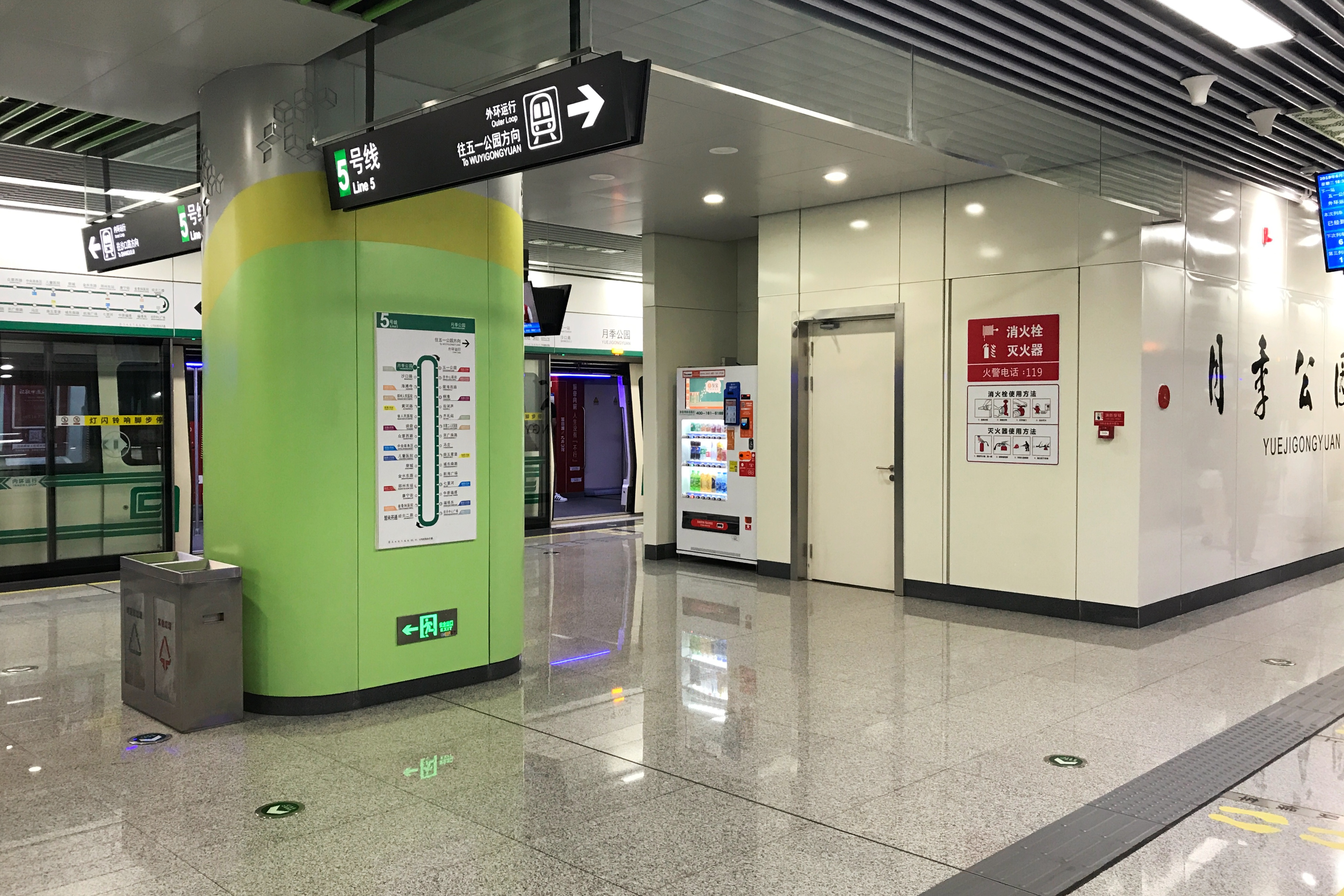 Platforms of Zhengzhou Metro Yuejigongyuan Station